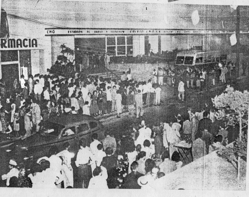 Radiocentro CMQ Building_Havana, Cuba_entrance on Calle M